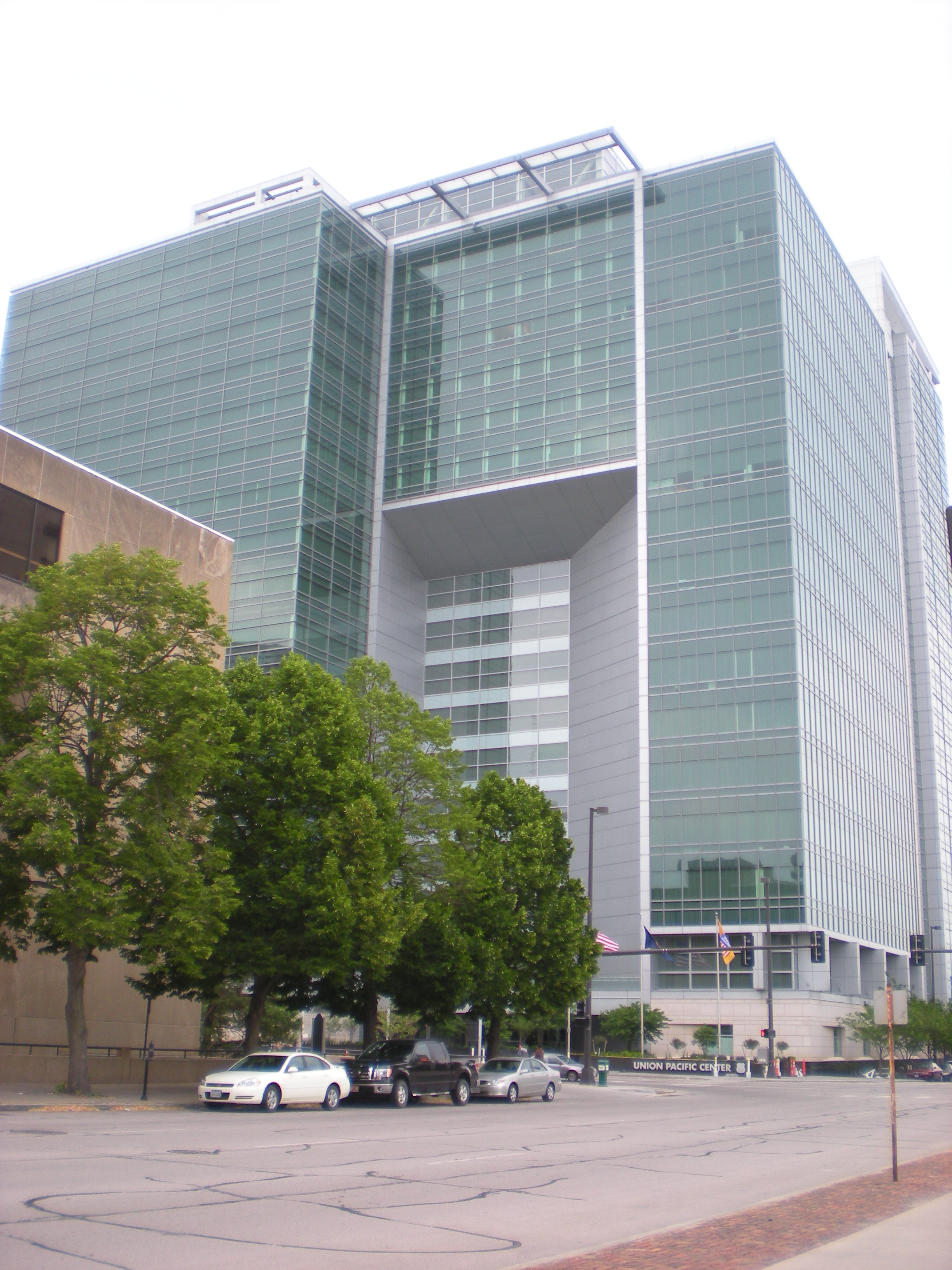 Union Pacific Center in downtown Omaha, Nebraska.